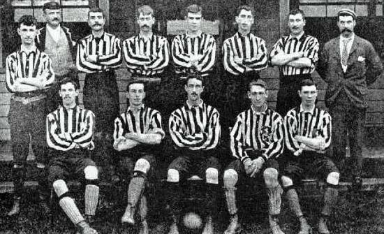 Image of New Brompton F.C. (later Gillingham F.C.) in 1894. Retrieved from Medway Council website but believed to be in the public domain as identity of photographer is unknown and image is more than 70 years old.